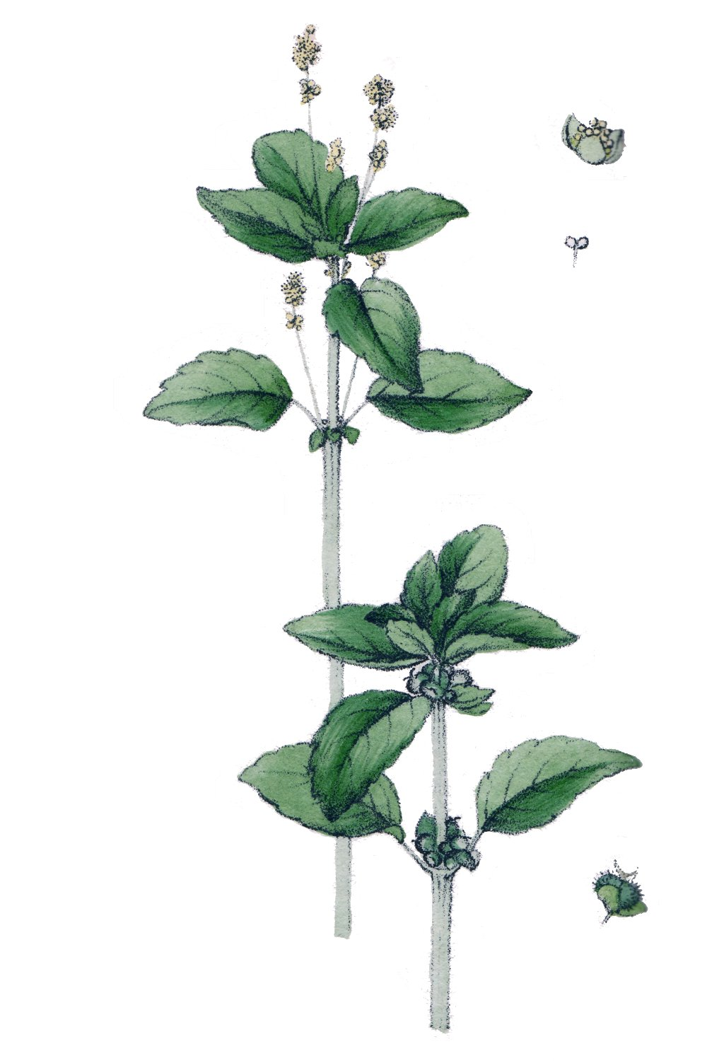 Mercurialis annua